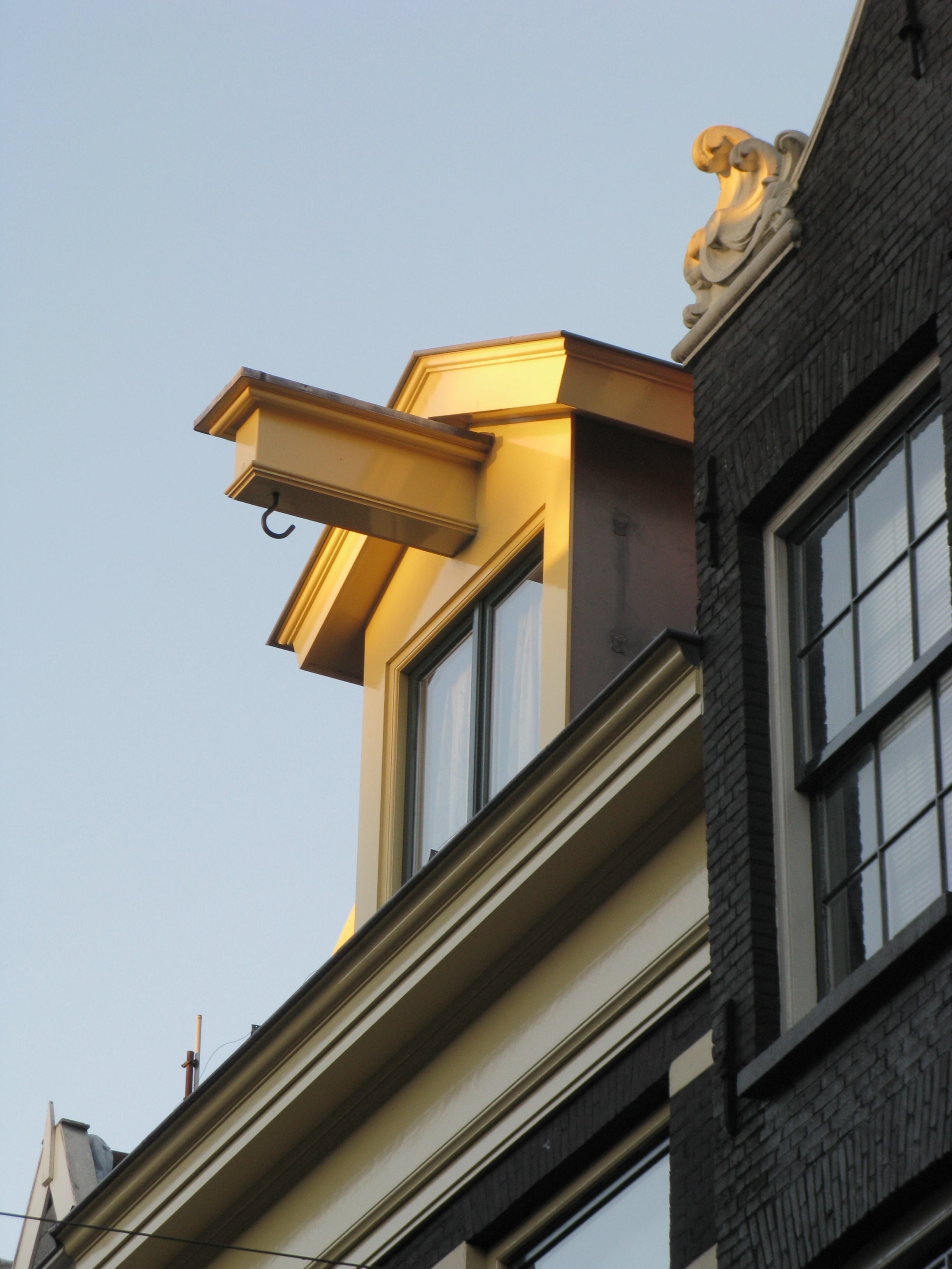 Amsterdam